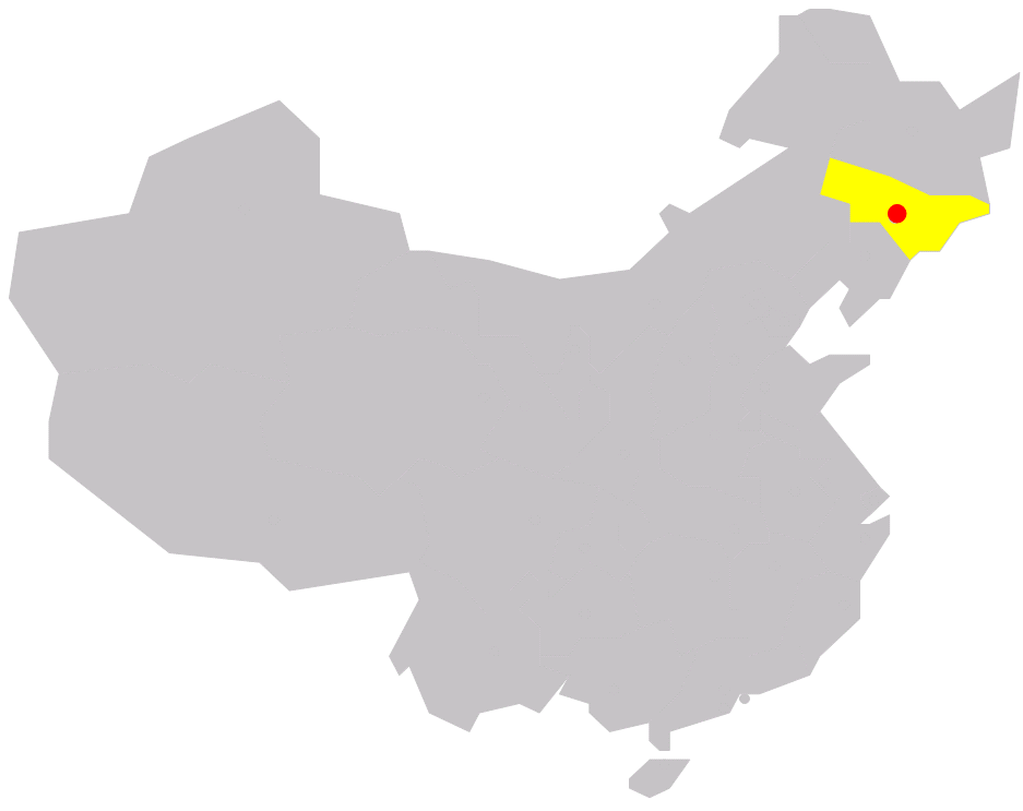 Description: position of Changchun in China Source: own work Date: December 2005 Author: --Immanuel Giel 13:25, 16 December 2005 (UTC) Other versions: none Changchun Changchun Changchun